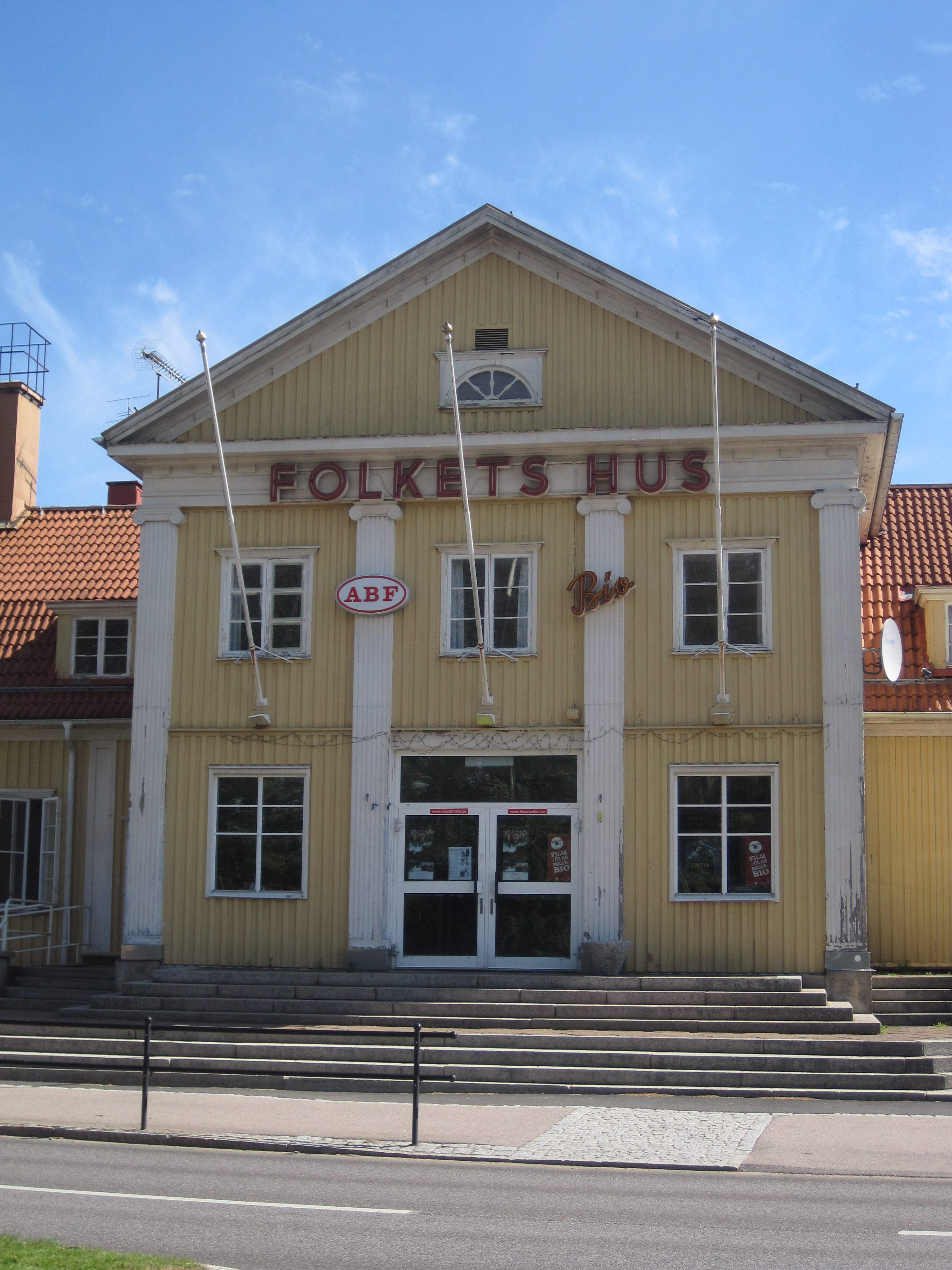 "The people's house" in Lessebo, Sweden.